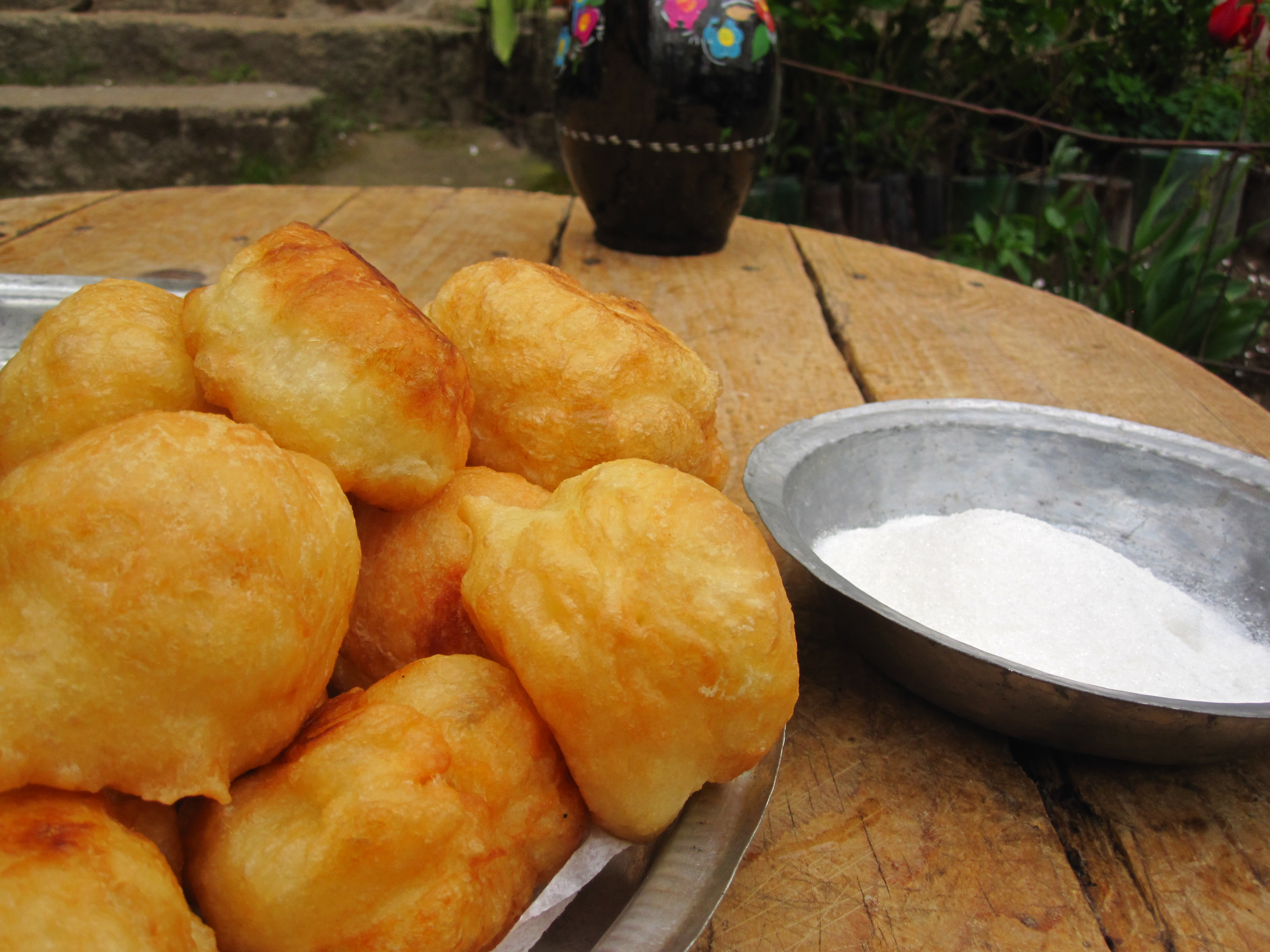 They say that you cannot forget the food that your mother made for you when you were a child. That taste is part of your home. These are Macedonian Fritters or Pitulici (Pitulitsi) as we call them in Macedonia. It's food with long tradition that was made by my grandmother and mother. I love to eat them with sugar. This photo has been taken in the country: Unknown